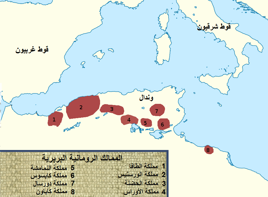 This is a selfmade copy based on figure 4.2 from the book "Vandals, Romans and Berbers: New Perspectives on Late Antique North Africa" by A.H. Merrills. Originally it is from Christian Curtois' "Les Vandales et l'Afrique", p. 334. It depicts the eight Christianized Romano-Berber states during the sixth century. Based on NordNordWest's "Mediterranean Sea location map (blank)"